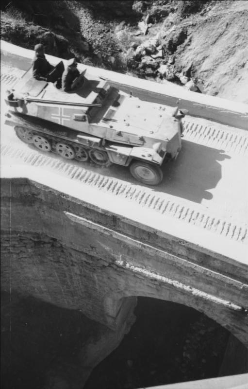 SdKfz. 253 artillery observer vehicle